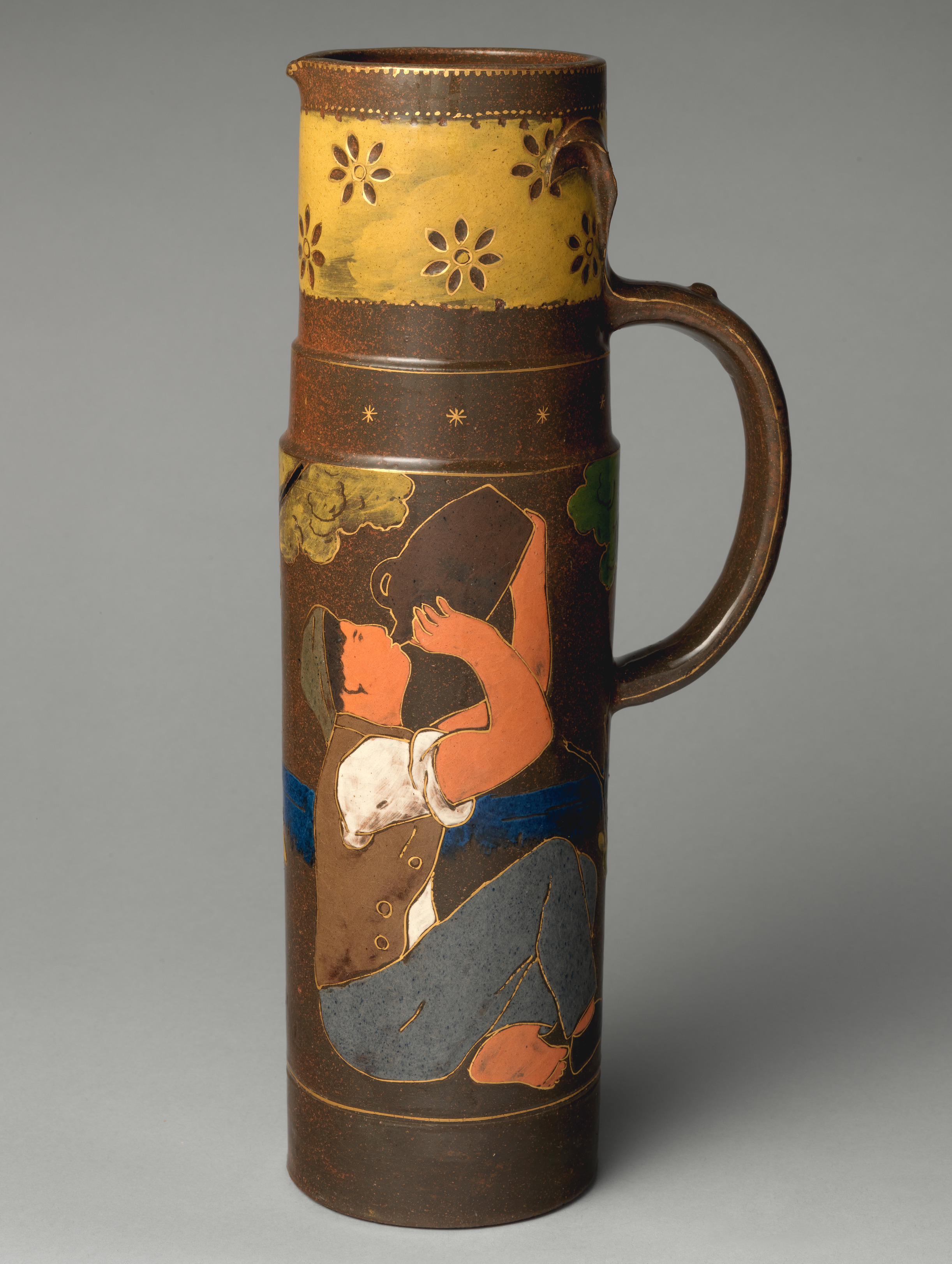 French, Paris; Tankard; Ceramics-Pottery